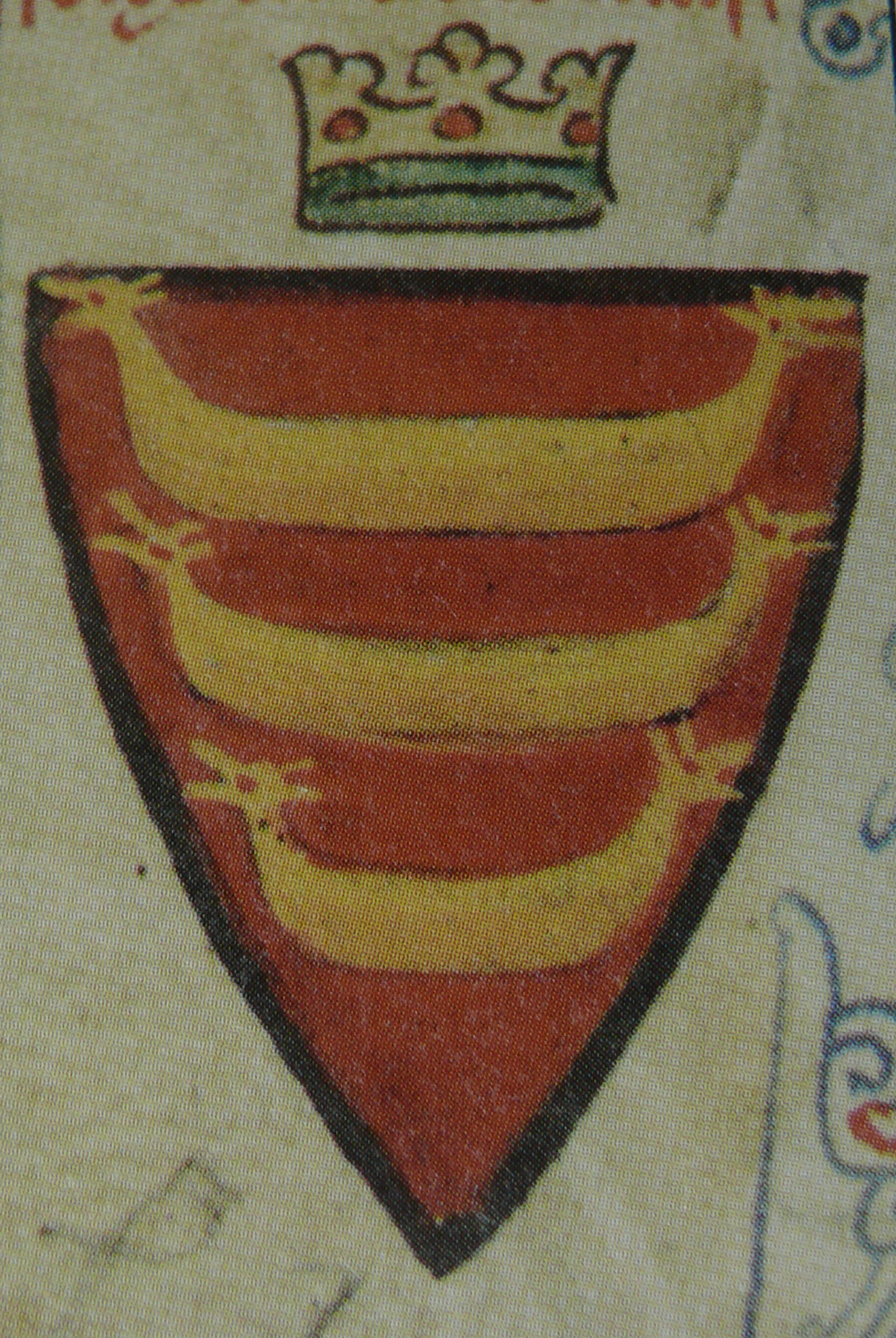 An excerpt from folio 216v of Cambridge Corpus Christi College Parker Library MS 16 II (Chronica Majora) depicting the coat of arms of Hákon Hákonarson, King of Norway (died 1263).